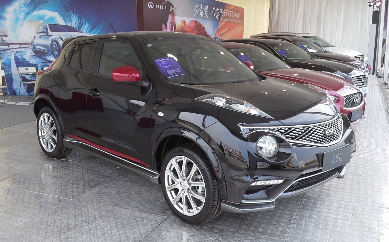 Infiniti ESQ photographed in Anting, Shanghai municipality, China.